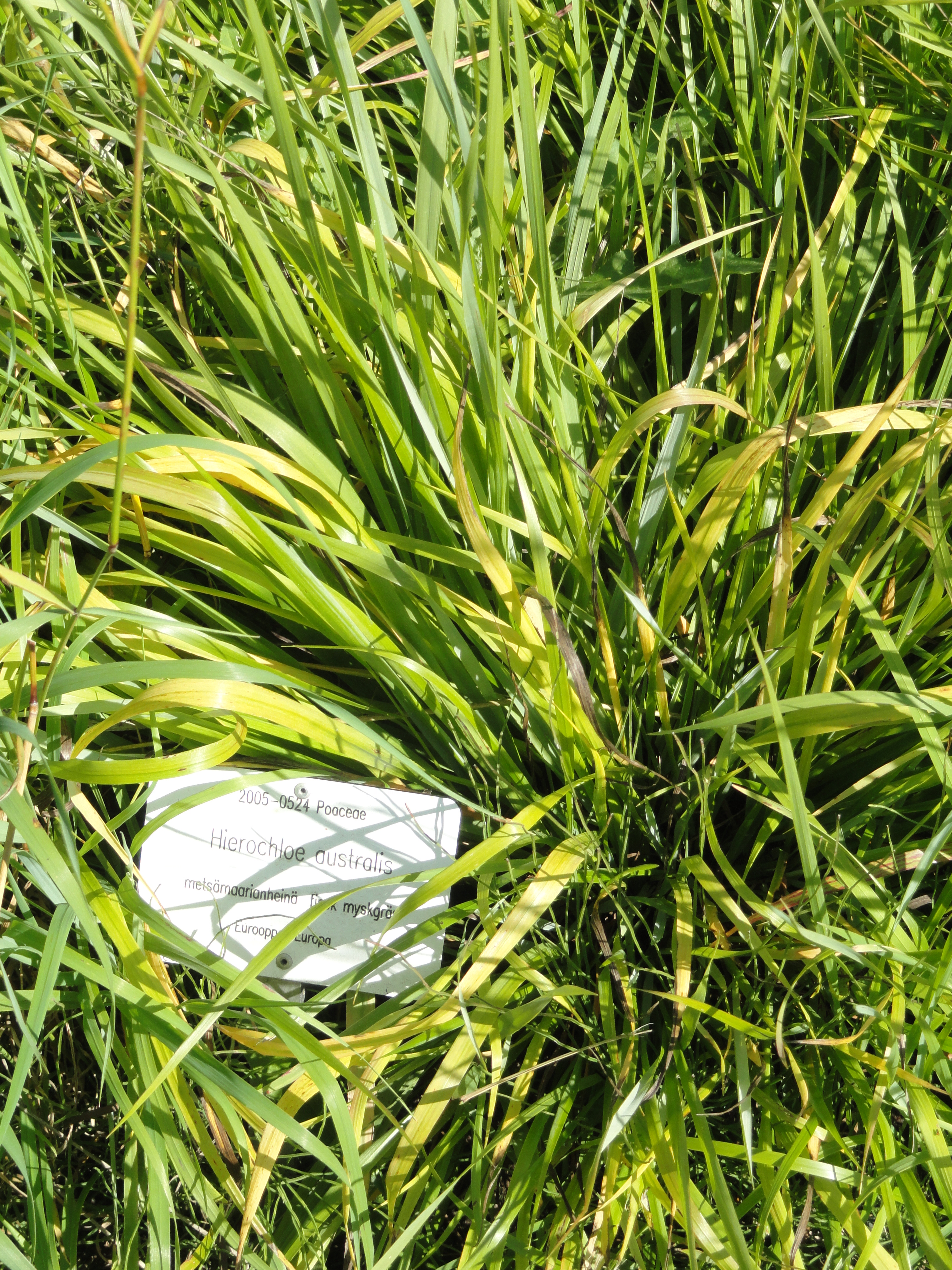 Botanical specimen. The University of Helsinki Botanical Garden at Kaisaniemi